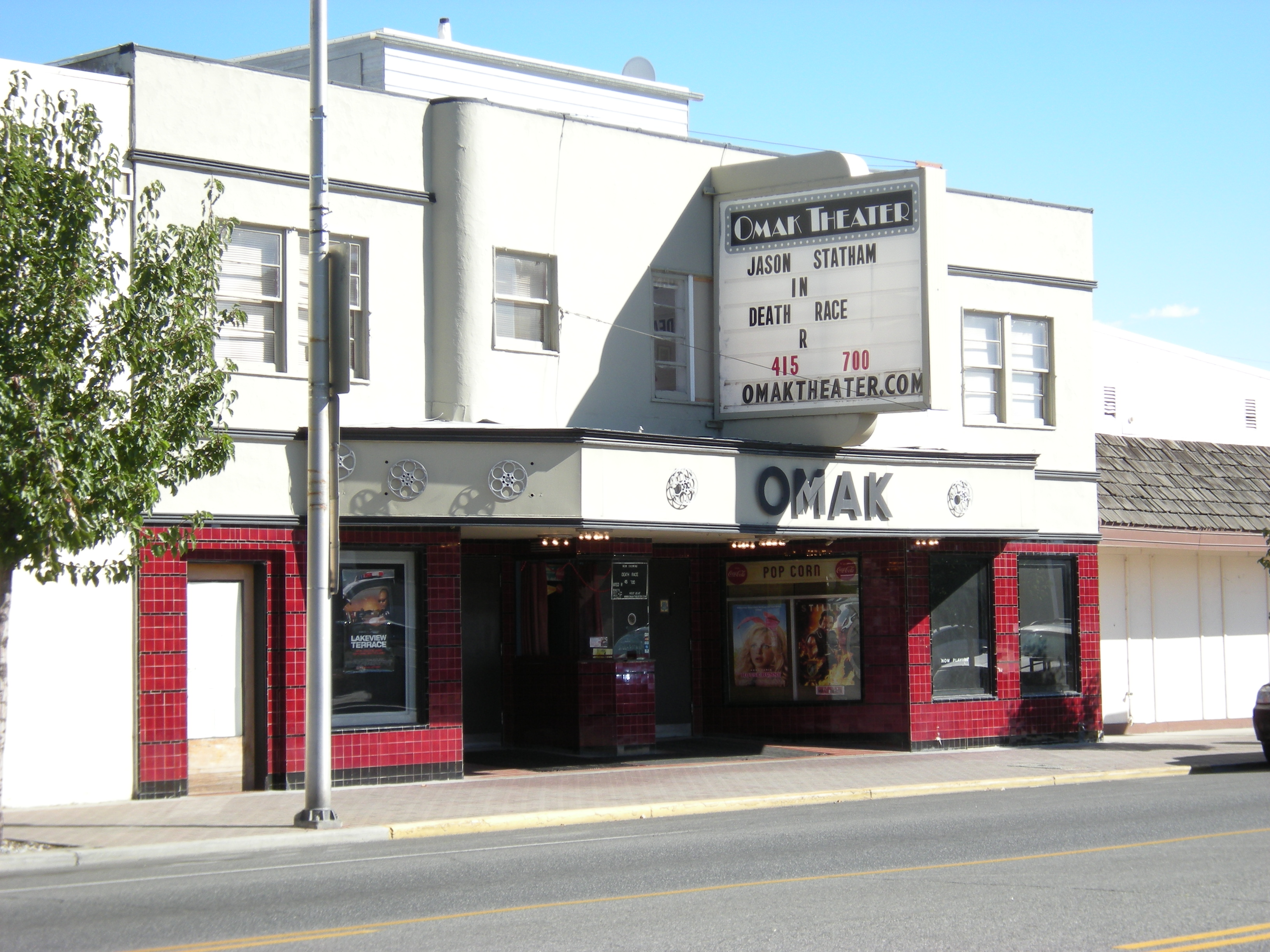 Omak Theater, Omak, Washington.